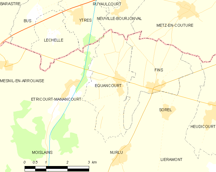 Map of French municipality Équancourt